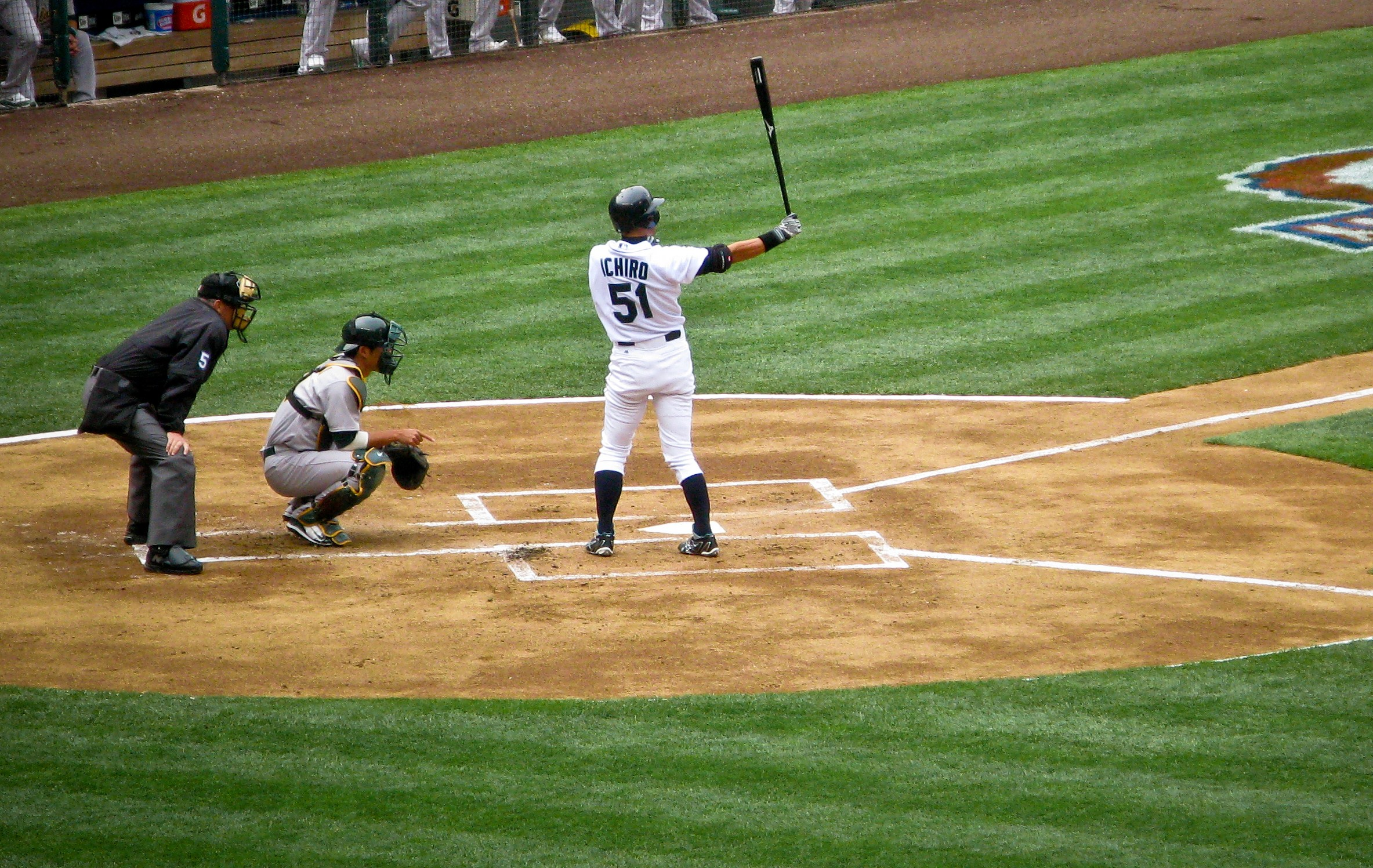 Ichiro Suzuki